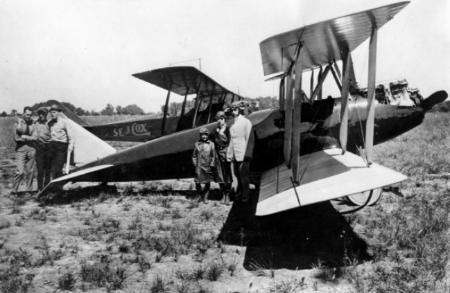 Six people pose by a Curtiss Oriole at an aviation meet in Houston, Texas (USA), in 1919. The Curtiss JN in the background is painted with the name "S.E.J. Cox". The first commercial airline to enter Houston, started by S.E.J. Cox in 1919. His Southern Aircraft company flew a Curtiss Jenny and two Curtiss Orioles. The following information was provided by a family member. The three people (on the right) by the wing are (right to left) Seymour Ernest J. Cox, Sr., his wife, Edith Nell Mc Donald Cox and their son, Seymour Ernest J. Cox, Jr.